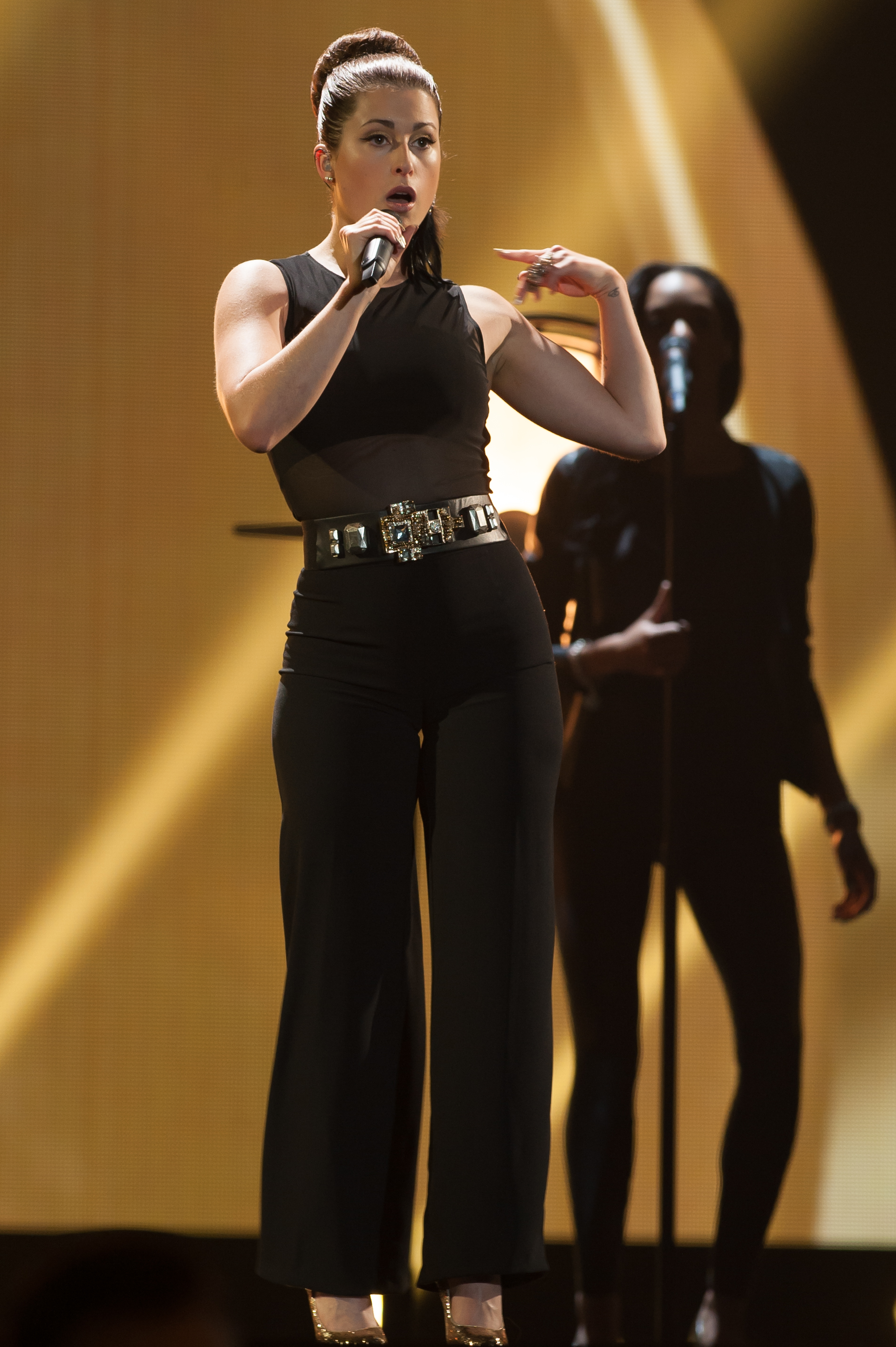 Eurovision Song Contest Vienna 2015: Ann Sophie